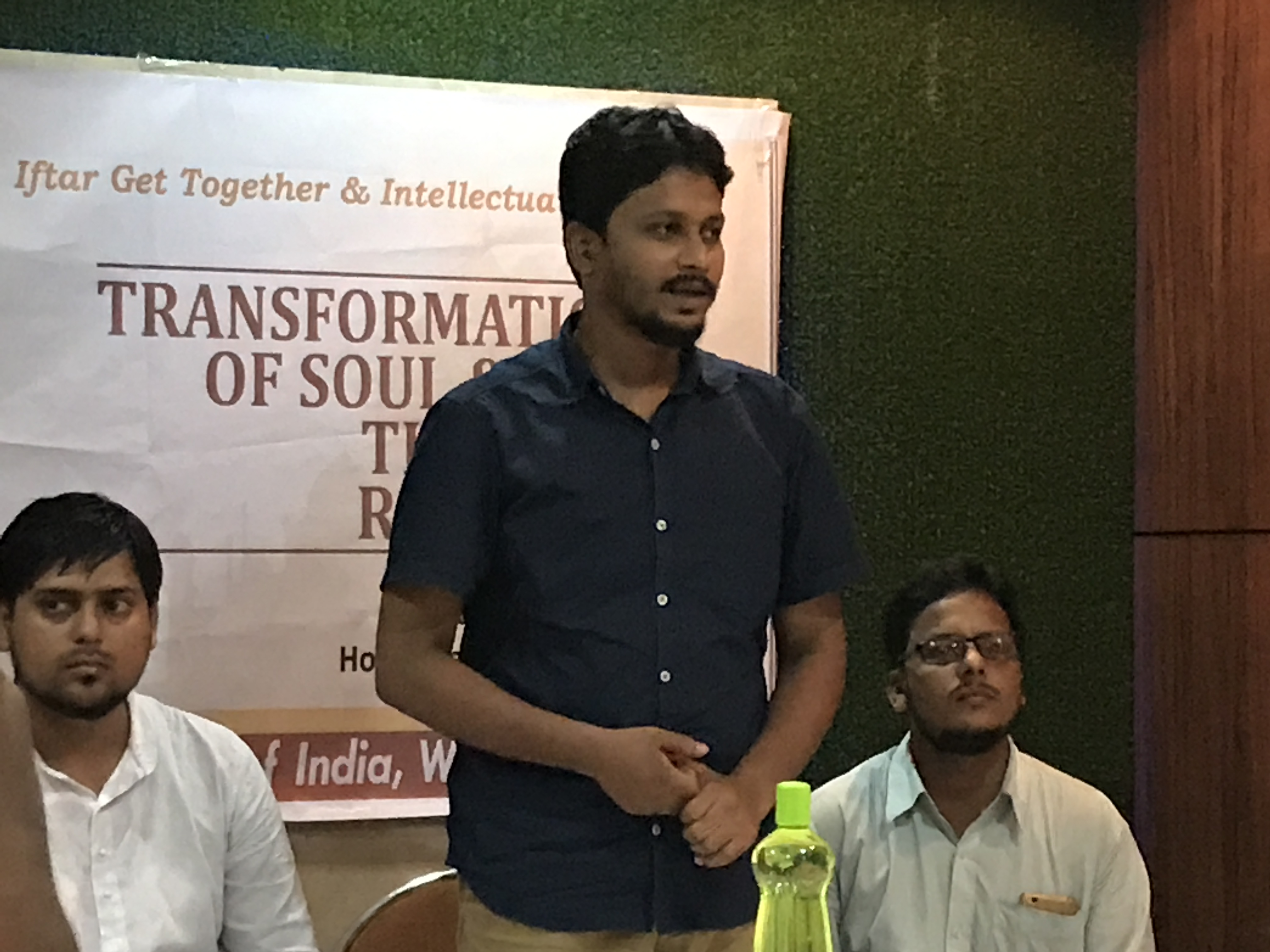 This photograph has been taken during a Iftar get together and Intellectual meet organised by Students Islamic Organisation of India's, West Bengal Branch at Hotel Green Inn, Kolkata.